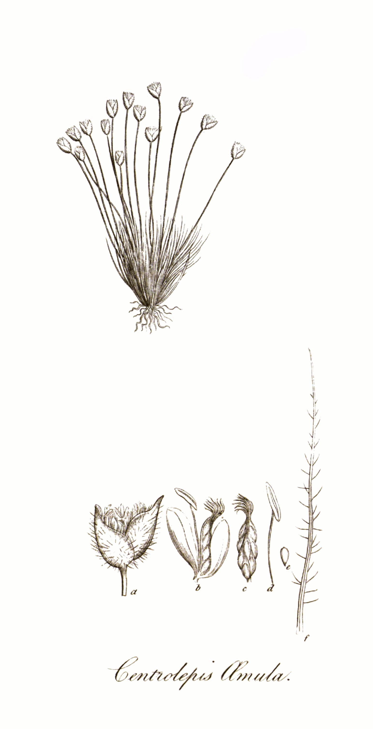 Illustration of Centrolepis amula from a page from Volume X of Transactions of the Linnean Society of London, published in 1811.